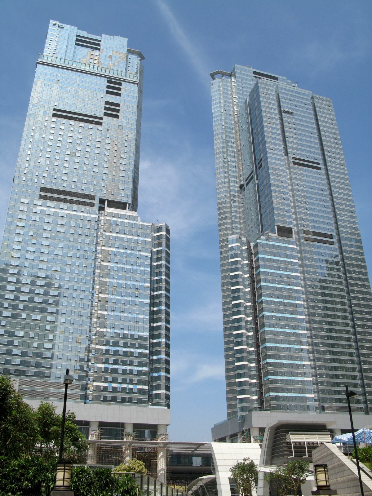 HK Union Square Plase 5